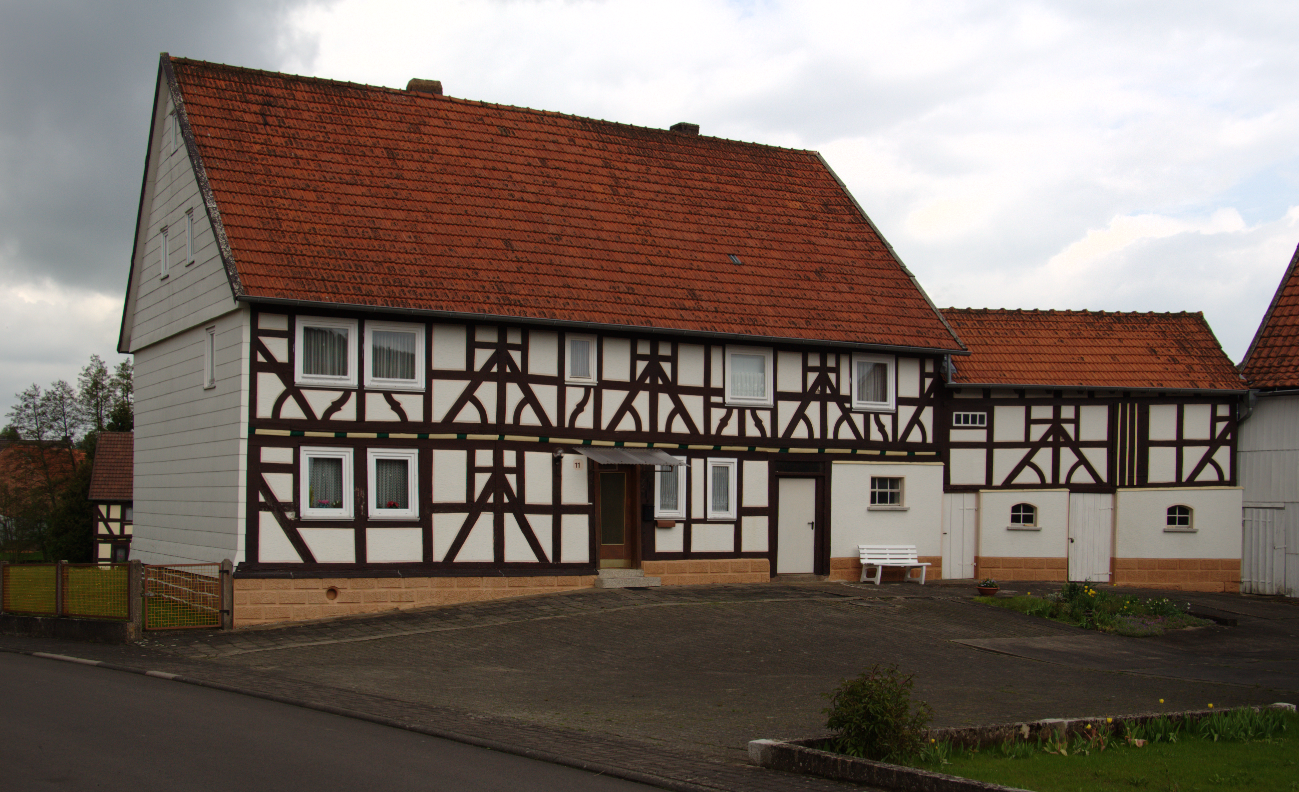 Half-timbered building in Schletzenhausen Sieberzer Strasse 11, Hosenfeld, Hessen, Germany